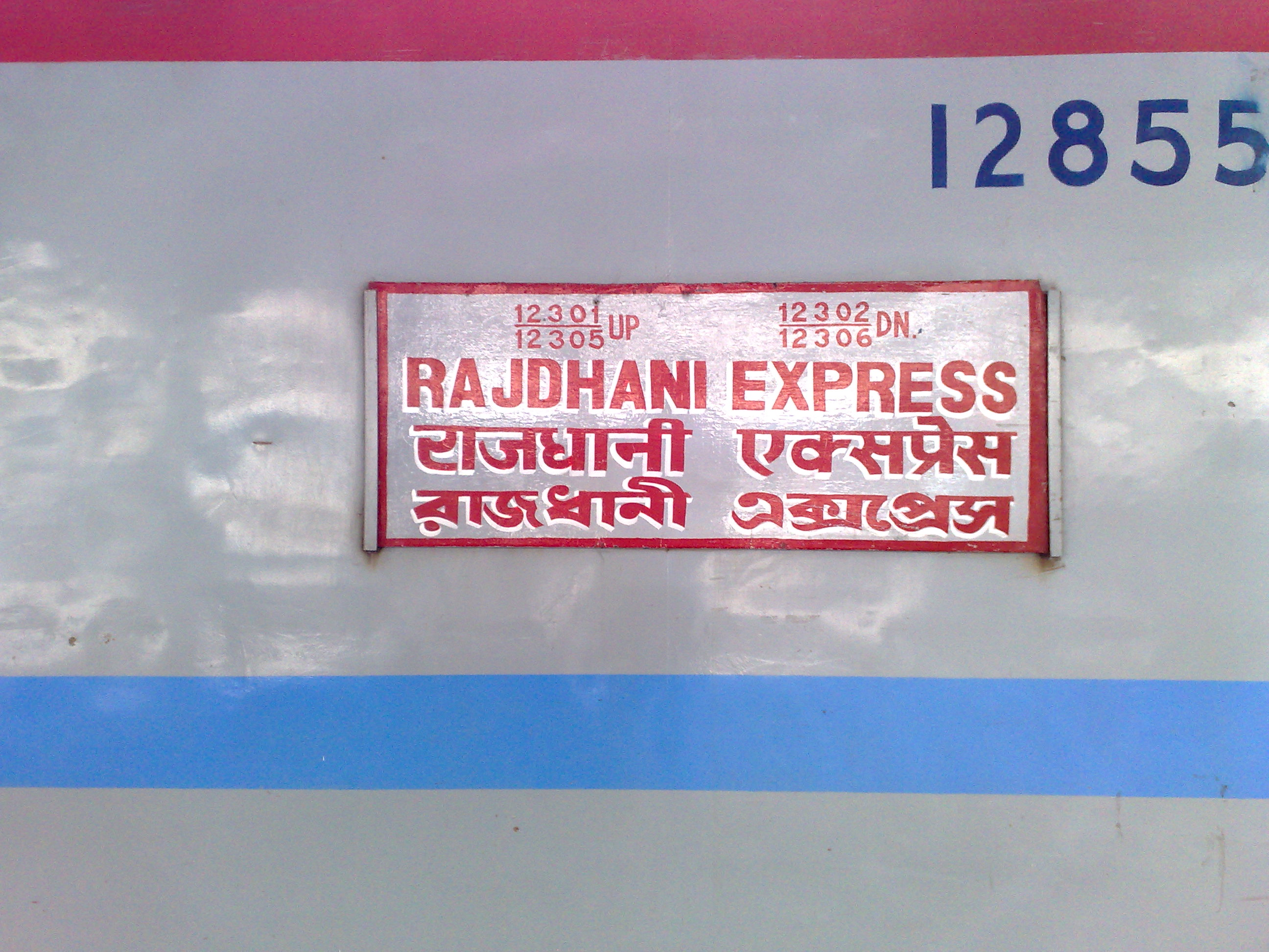 12302 Howrah Rajdhani Express - Trainboard